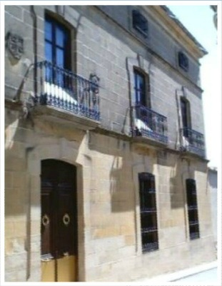 sdsdsdsd